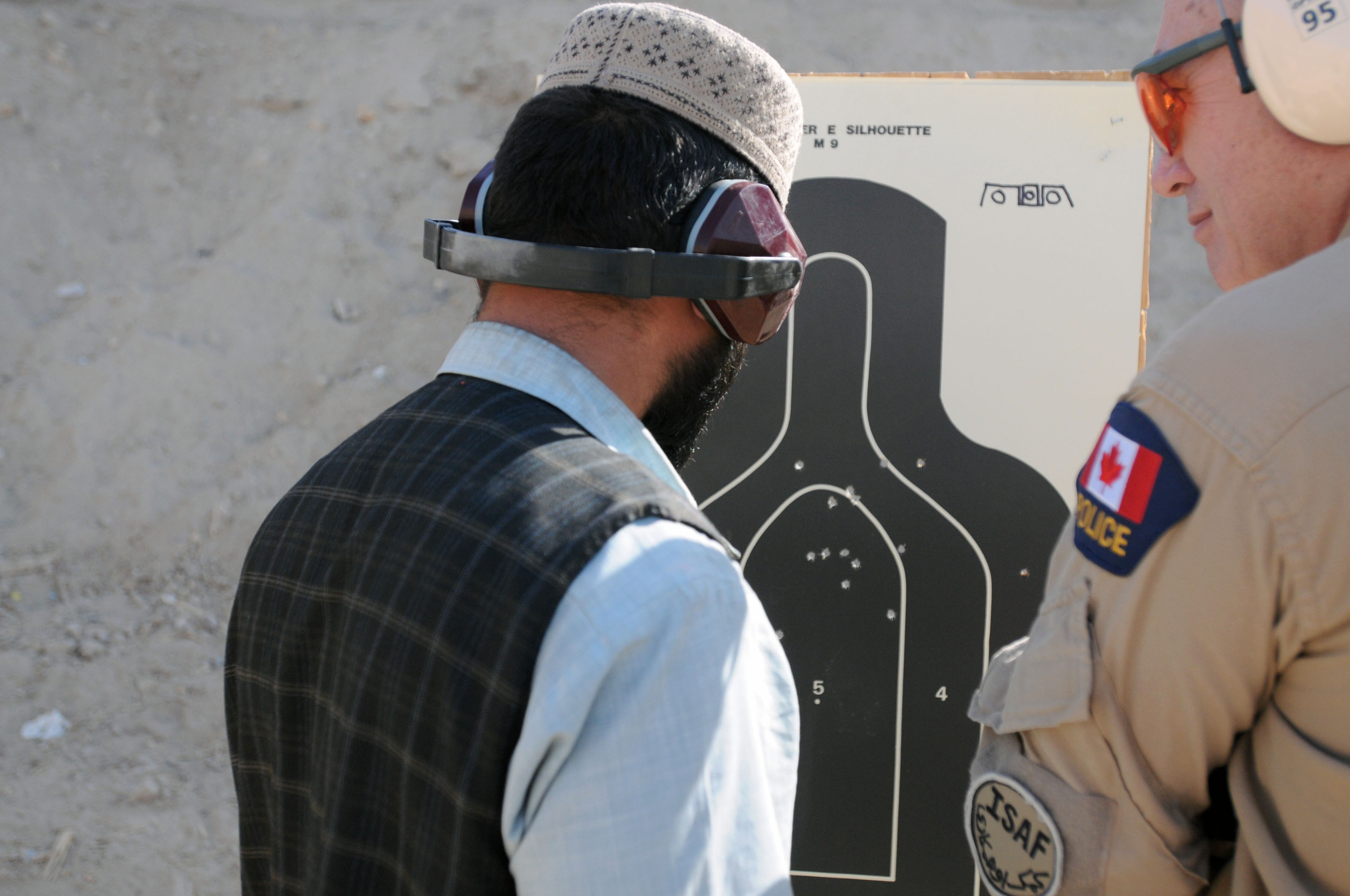 Constable Lorant Haged, Royal Canadian Mounted Police and instructor at the leadership and management course, looks at a target after the ANP ceased fire at a 9mm familirization range Dec. 3. The ANP are attending a six month Leadership and Management course where they will also take a criminal Investigation course, leadership and mangagement classes and Rule of Law. The intent of the school is teach the ANP officers and leaders at an advanced level of training that will help them become more effective in running police sub-stations.